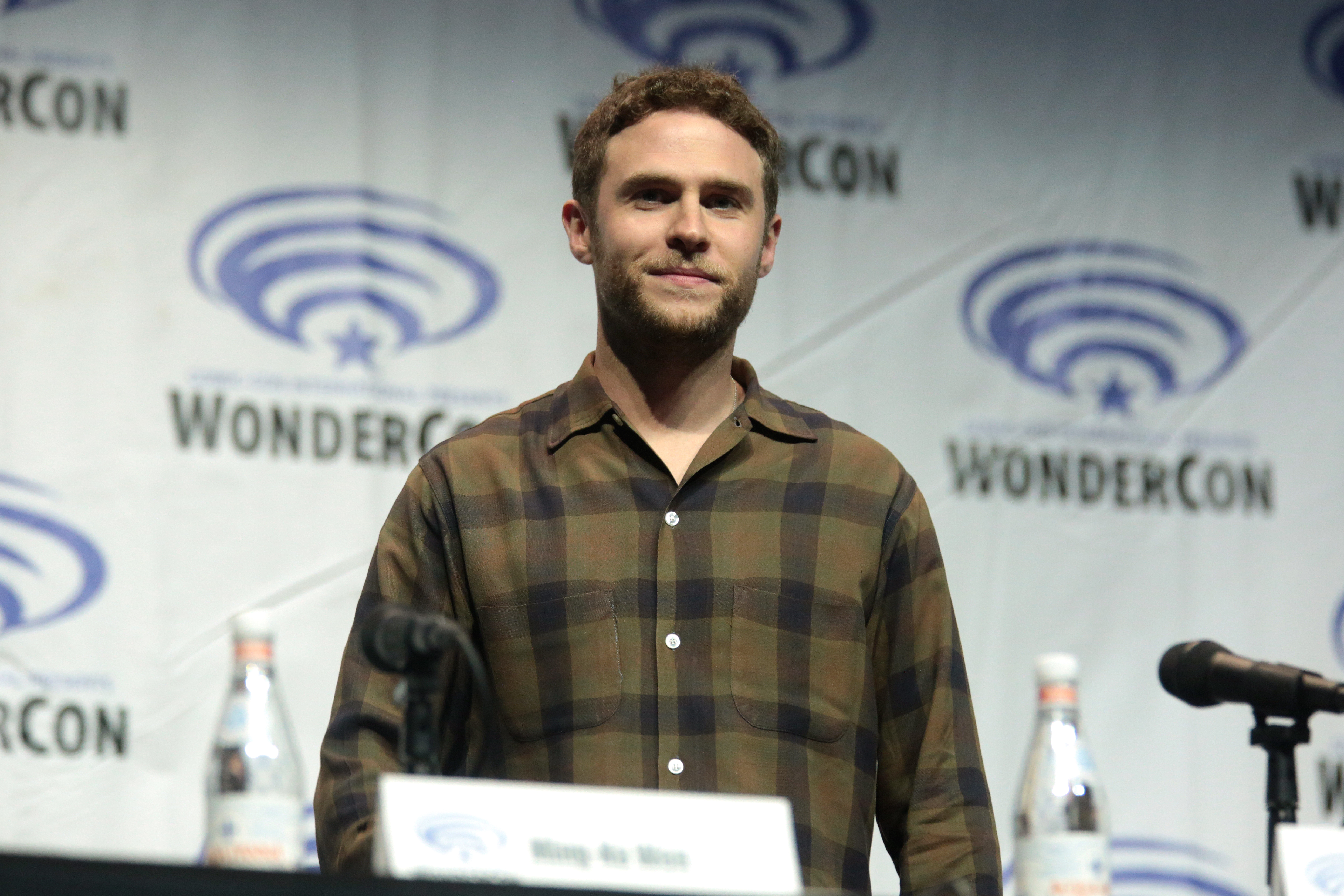 Iain De Caestecker speaking at the 2018 WonderCon, for "Agents of S.H.I.E.L.D.", at the Anaheim Convention Center in Anaheim, California.